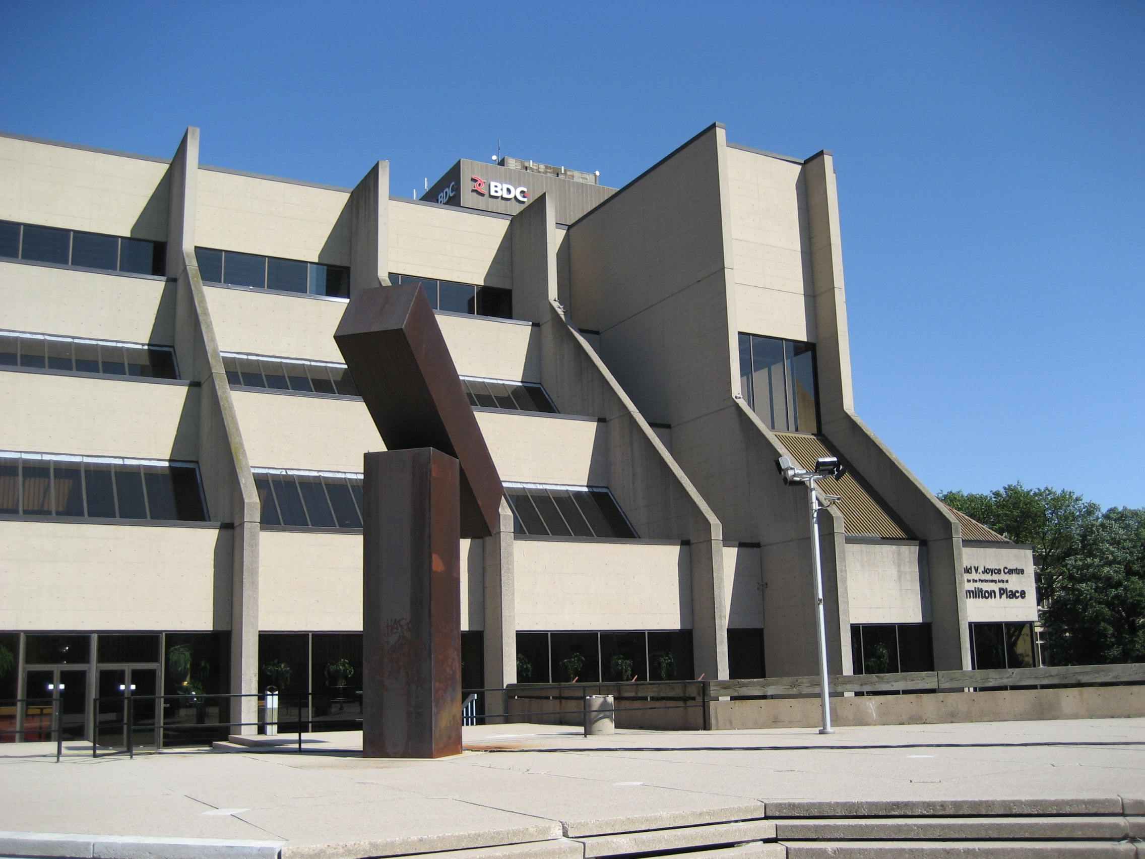 Ronald V. Joyce Centre for the Performing Arts at Hamilton Place, downtown Hamilton, Ontario